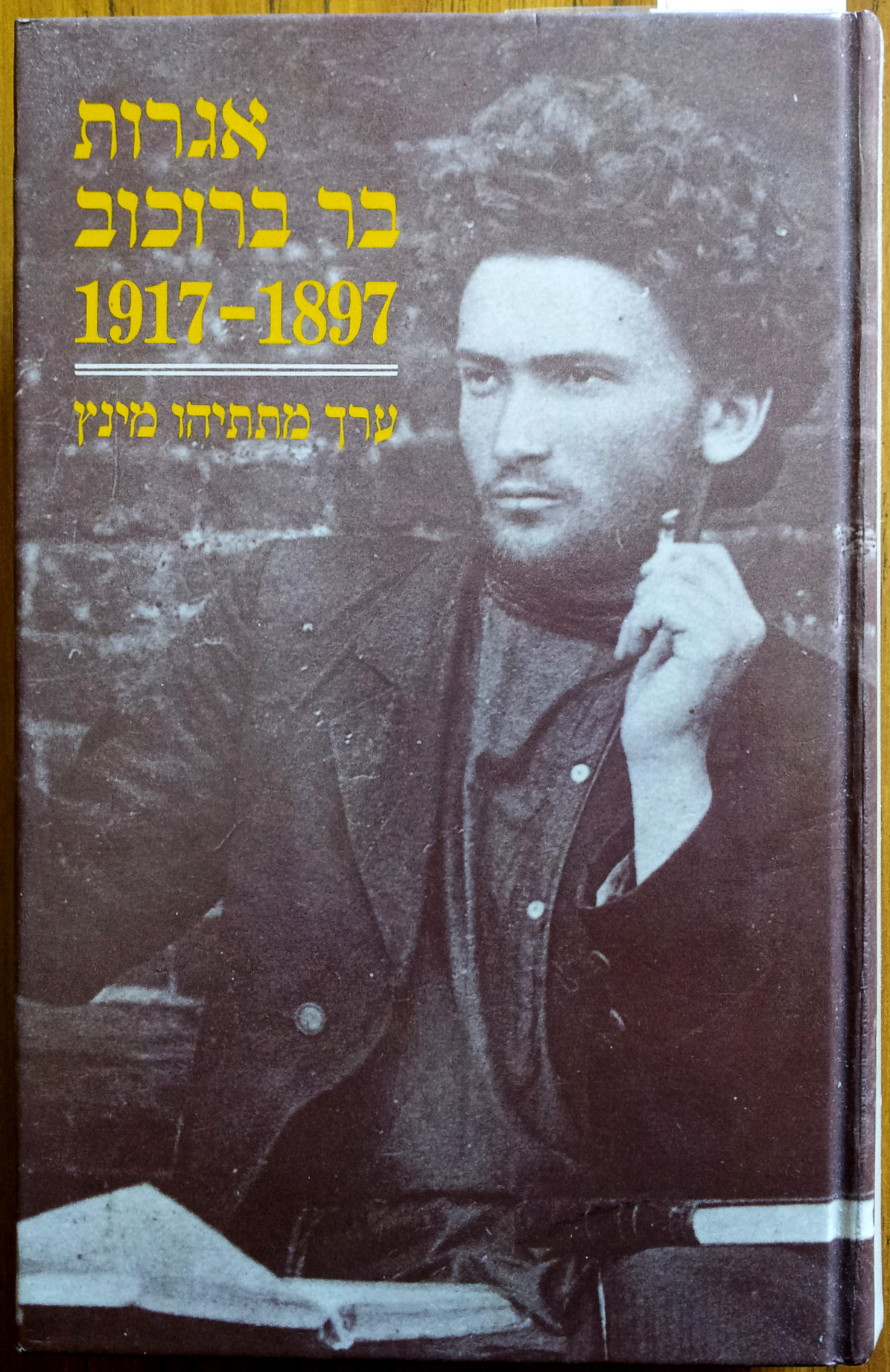 Igrot Ber Borochov (Ber Borochov letters) – 1897–1917, written by Matityahu Minc, Tel Aviv: Tel Aviv University, Am Oved publishers, 5749 (Hebrew Calendar) – 1989; Borochov Biography.